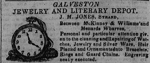 An 1844 advertisement for a jeweler on the Strand, near the wharves.